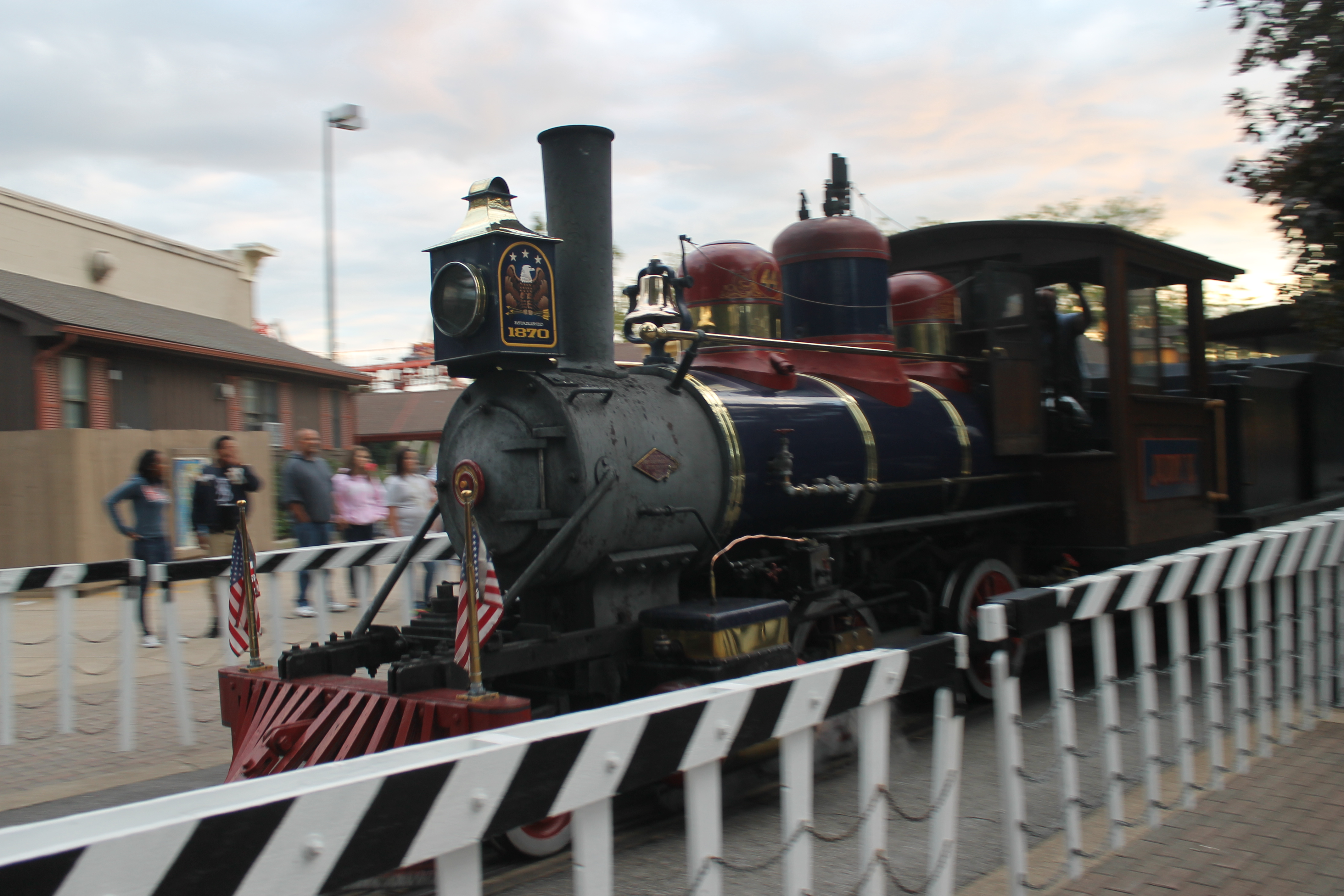 A farewell summer trip to Cedar Point (Sandusky, OH) with Ivy and Dan. The best roller coasters with no lines, amazing fun times, and apple picking the next day en route back! We had a blast in the Midwest.